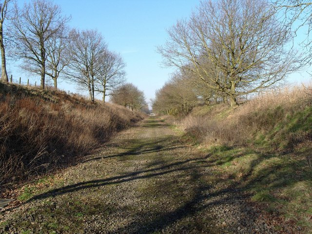 Trackbed, North Elmham This is the trackbed of the Great Eastern Railway at North Elmham, looking towards County School. The 1 mile of trackbed between the current line and the station plus the actual County School station was bought off the council for the huge expense of £1 a few years ago to aid the extension progress.